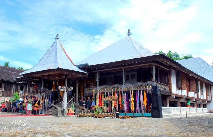 Lamban gedung buay pernong